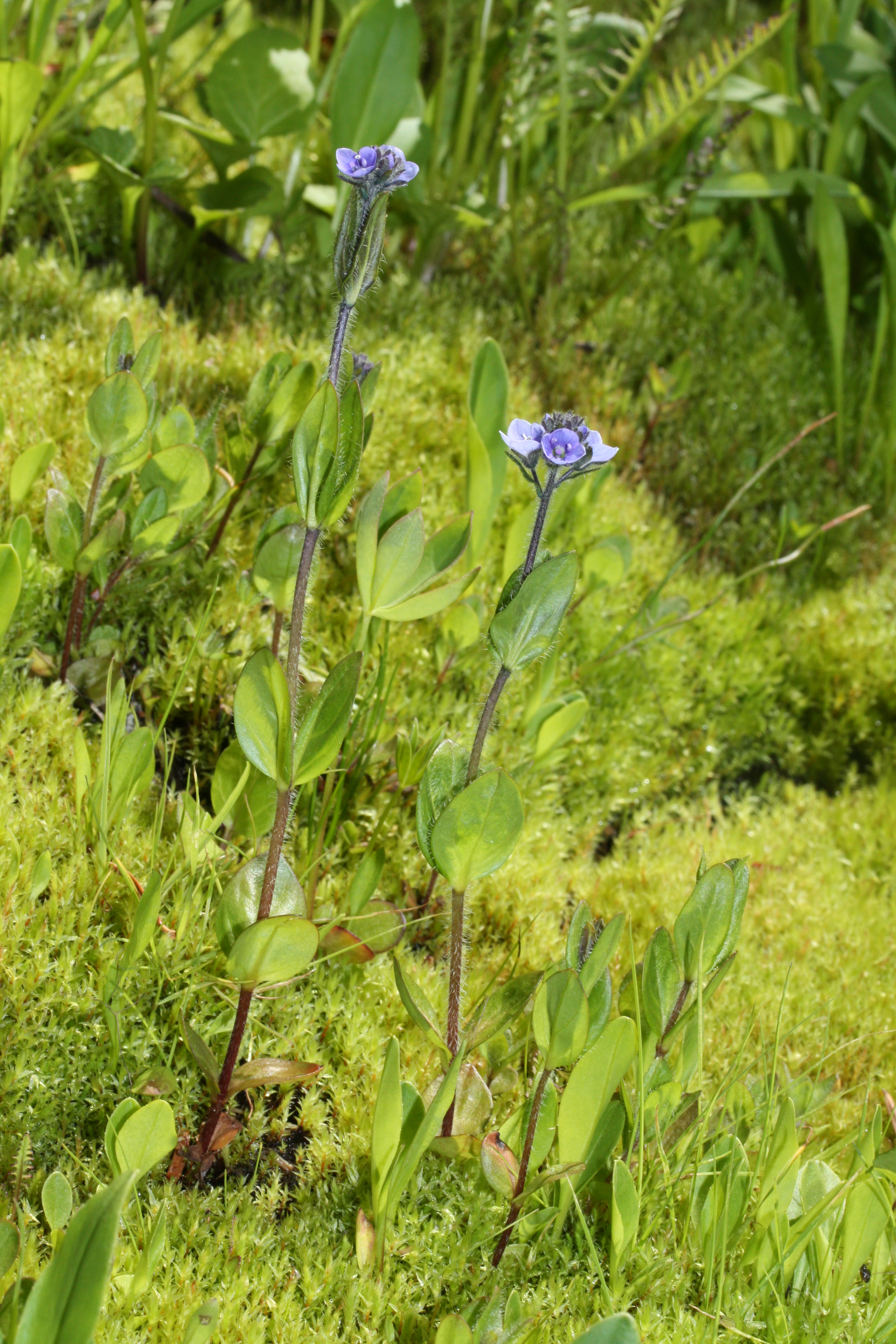 Alpine Speedwell, Hairy Speedwell, American Alpine Speedwell, typical individual with four petals.